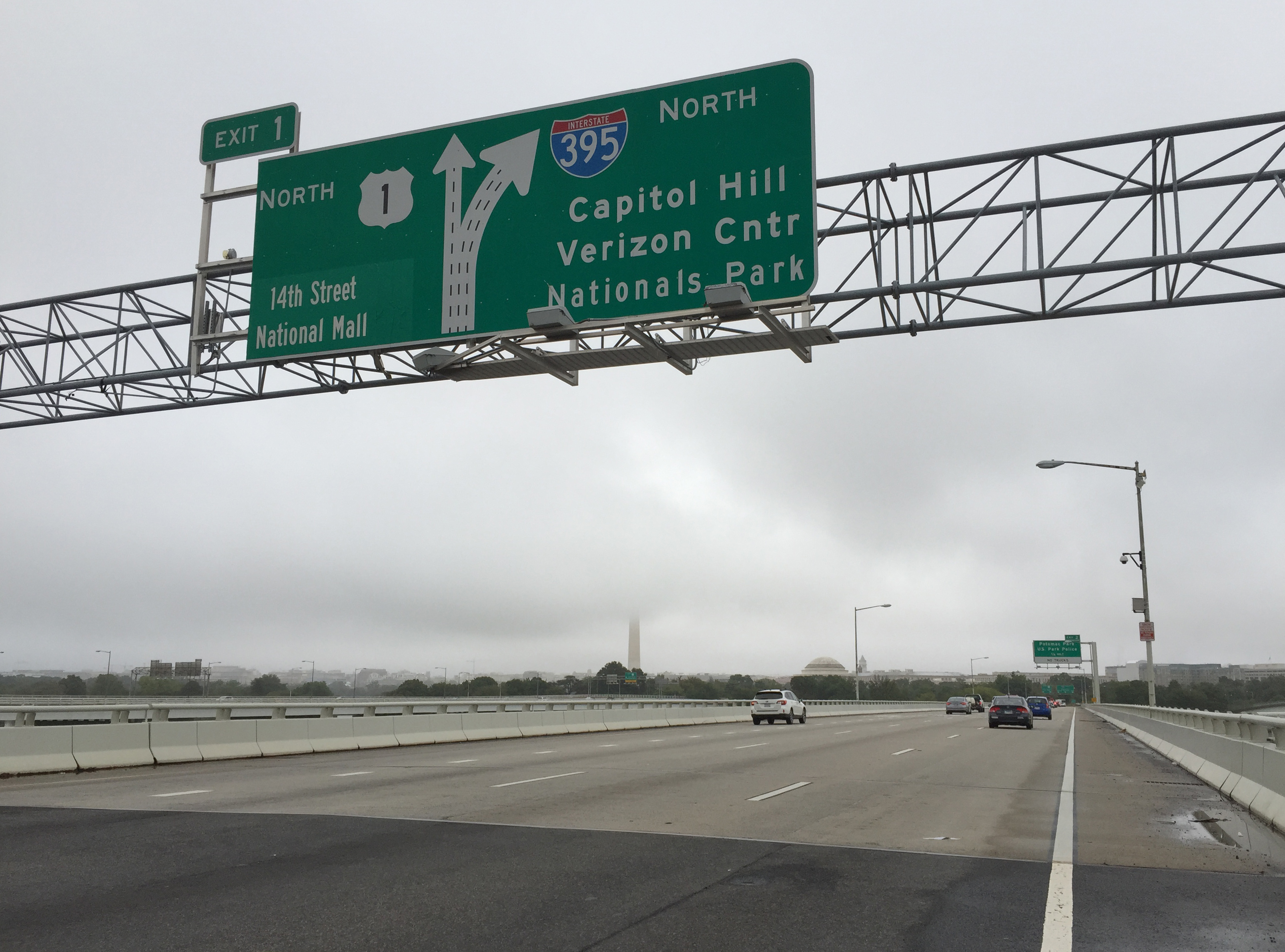 View north along Interstate 395 and U.S. Route 1 (14th Street Bridge) crossing the Potomac River from Arlington County, Virginia to Washington, D.C.